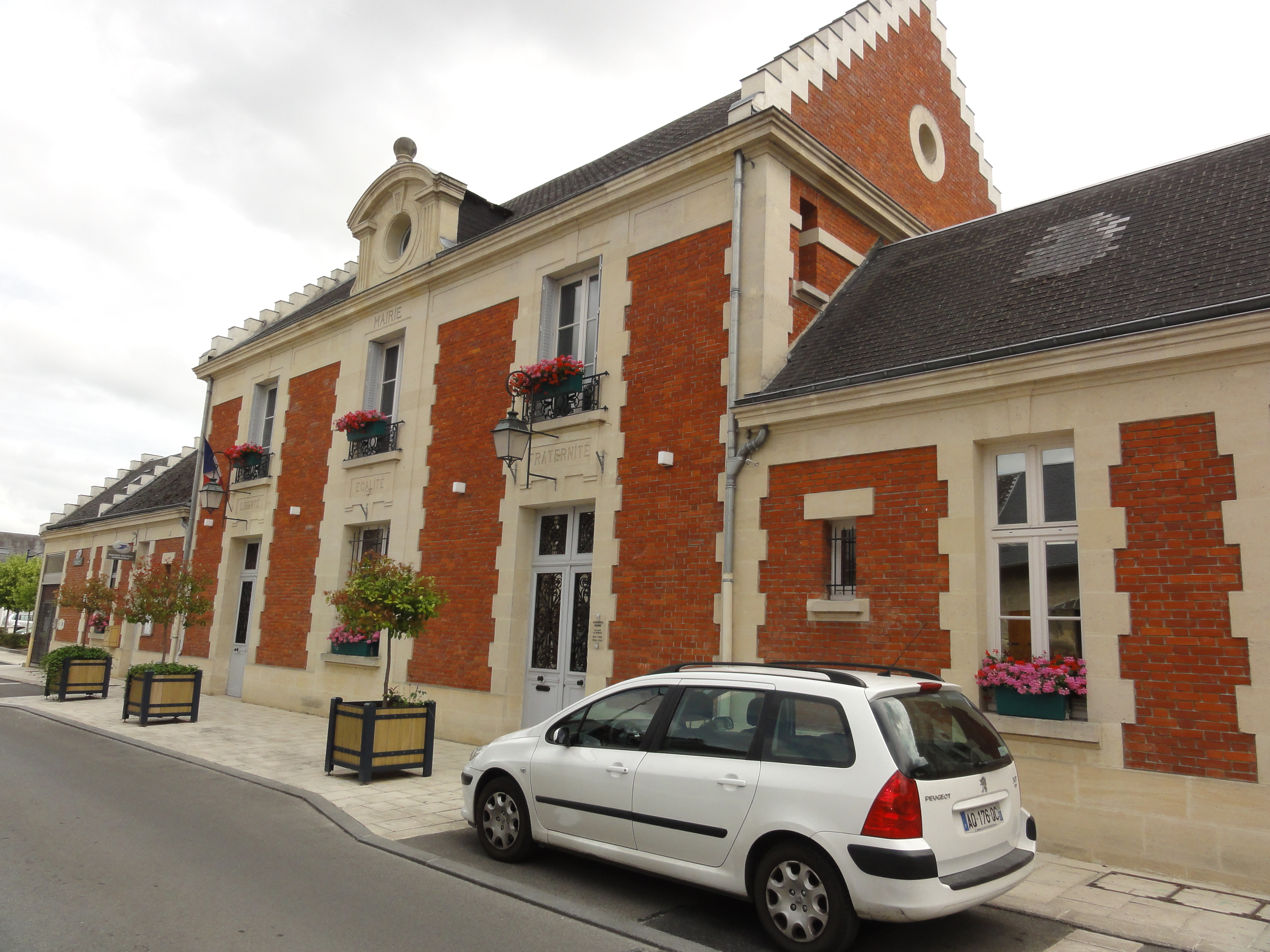 Villeneuve-Saint-Germain (Aisne) mairie